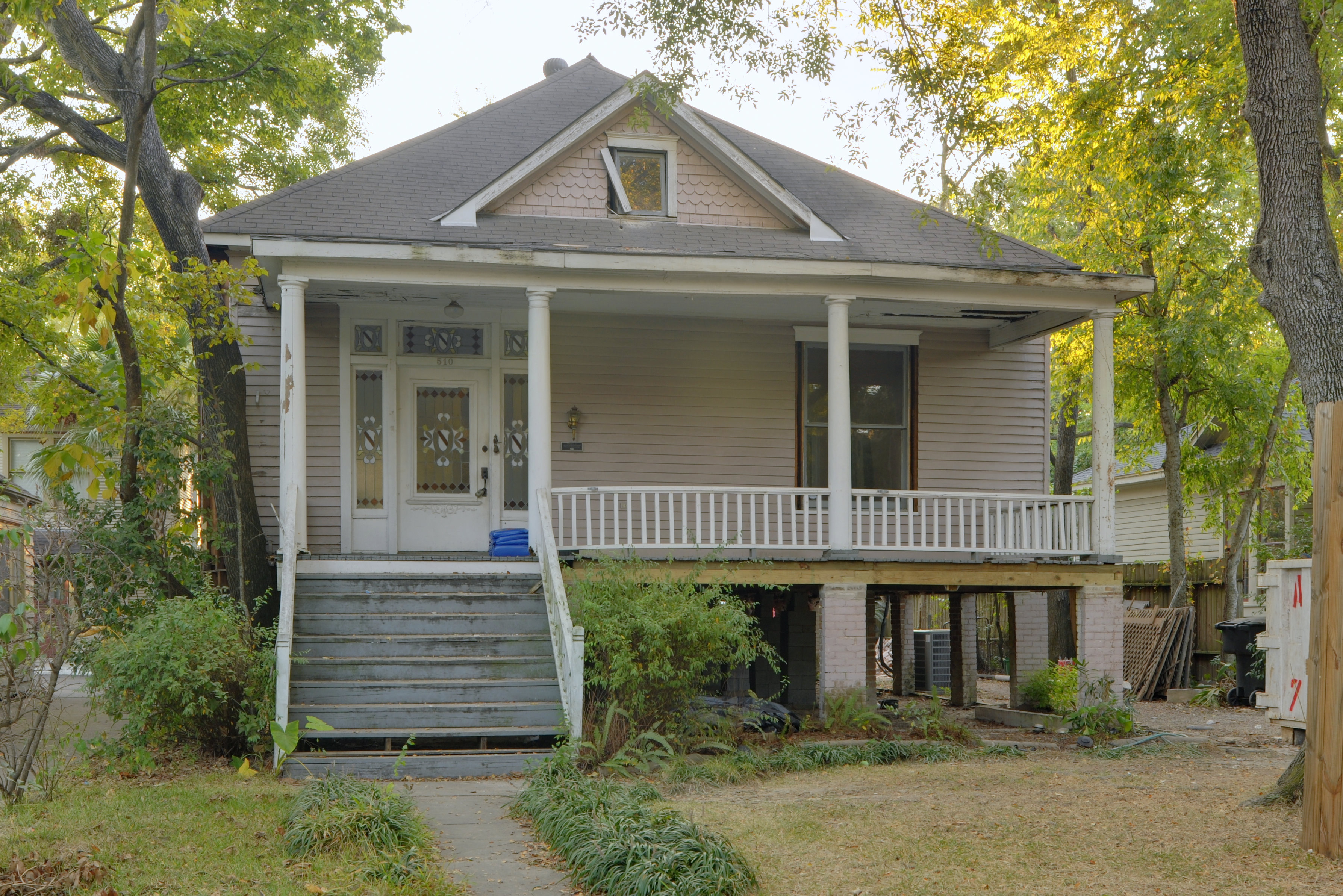 Eaton House, 510 Harvard St., the Heights, Houston (Texas, USA) is listed in the National Register of Historic Places, United States Department of the Interior.